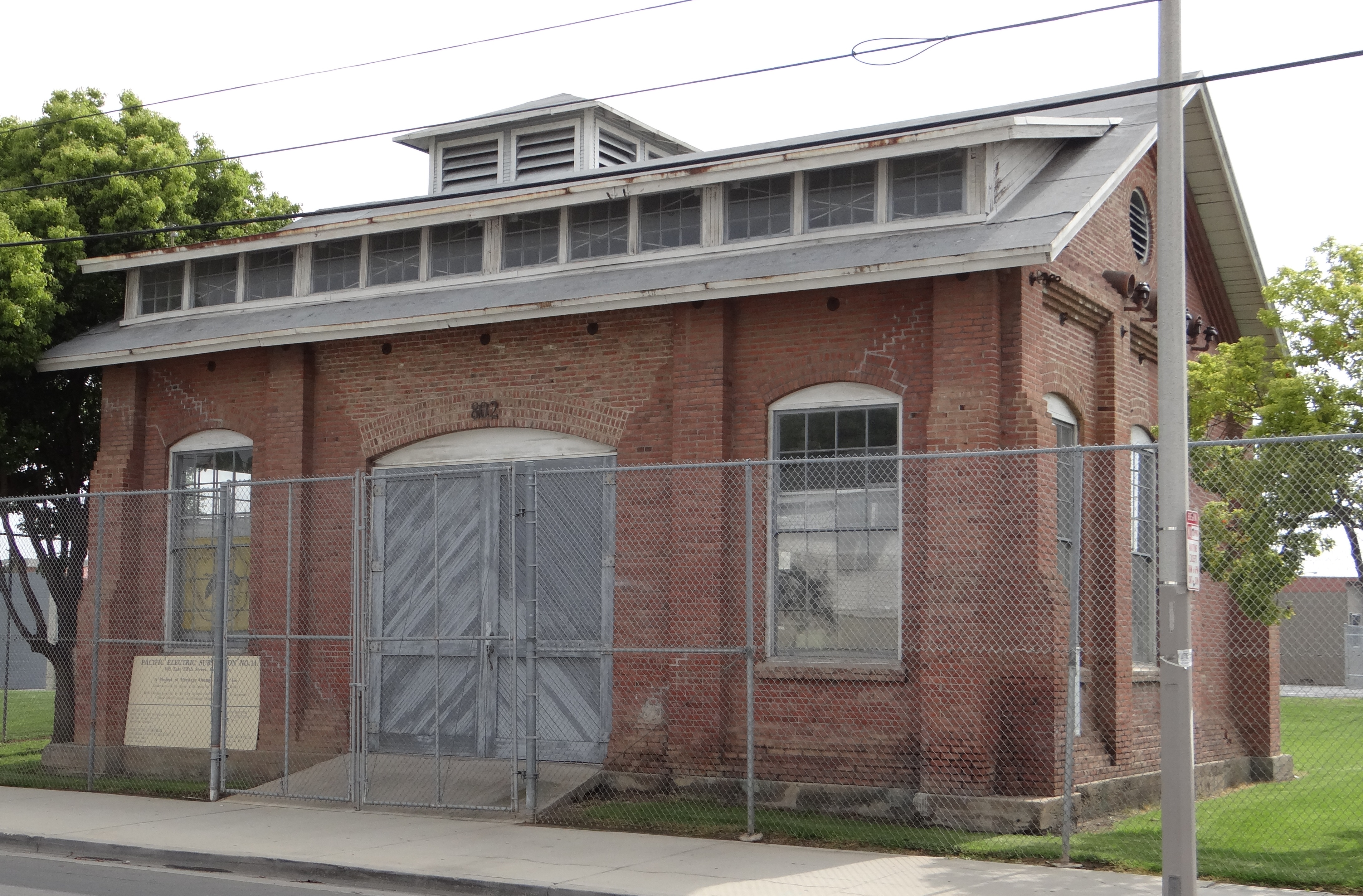 Pacific Electric Sub-Station No. 14, 802 E. 5th St., Santa Ana, California. Listed on National Register of Historic Places